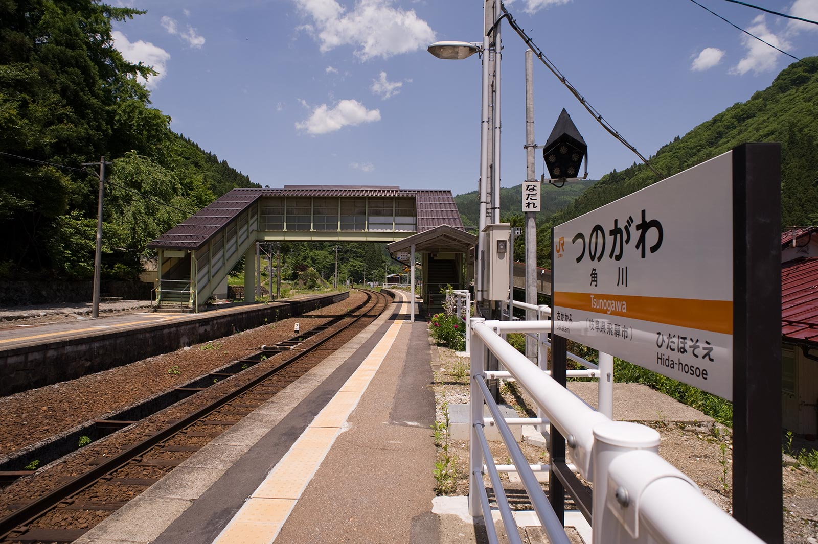 Tsunogawa Station